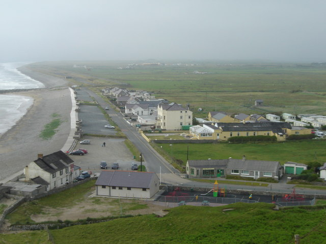 Dinas Dinlle, near to Llandwrog, Gwynedd, Wales.